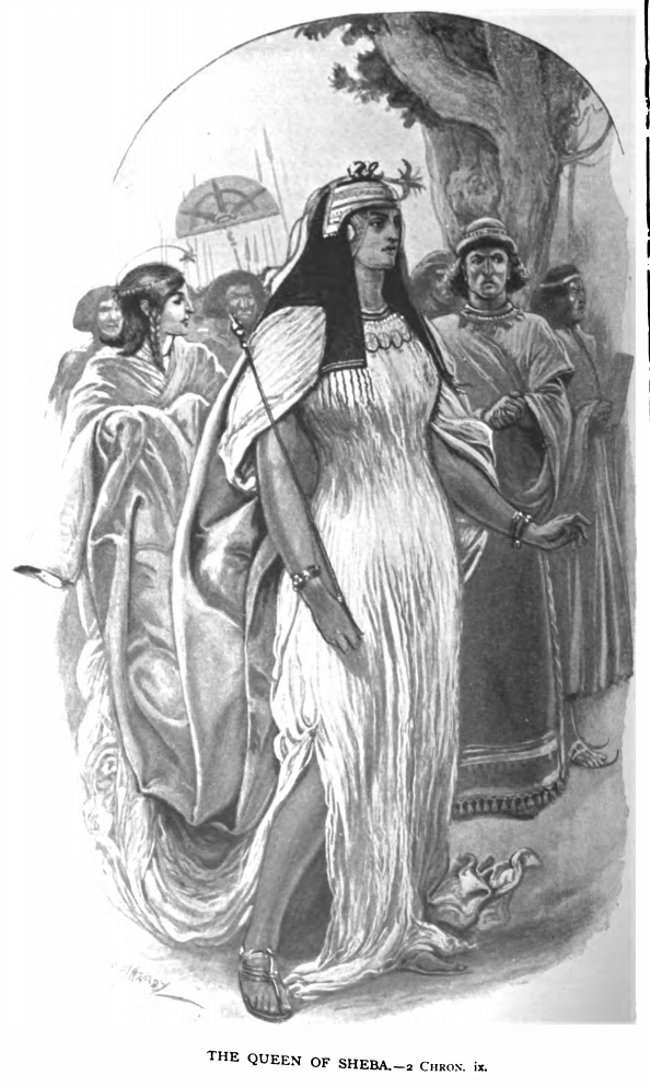 Nigist (Queen) Makeda of Sheba